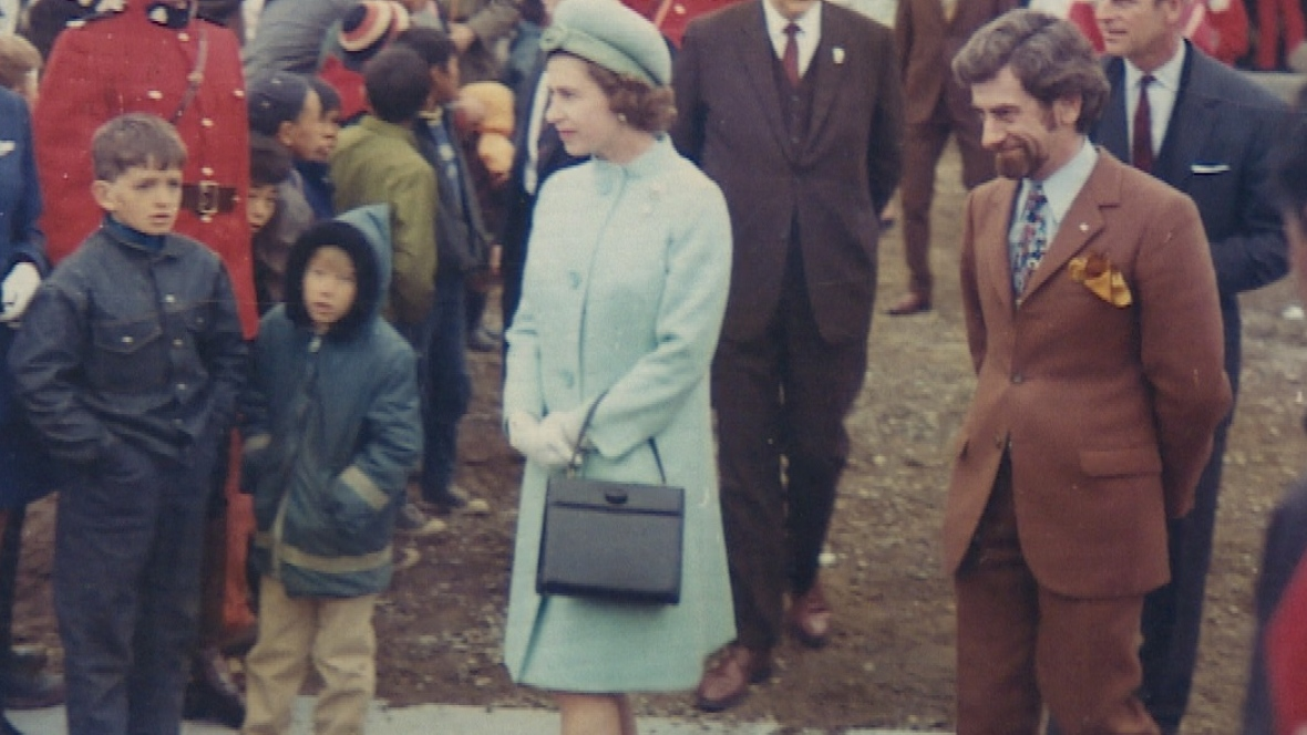 Queen Elizabeth pictured with Bryan Pearson MLA after her visit to Iqaluit